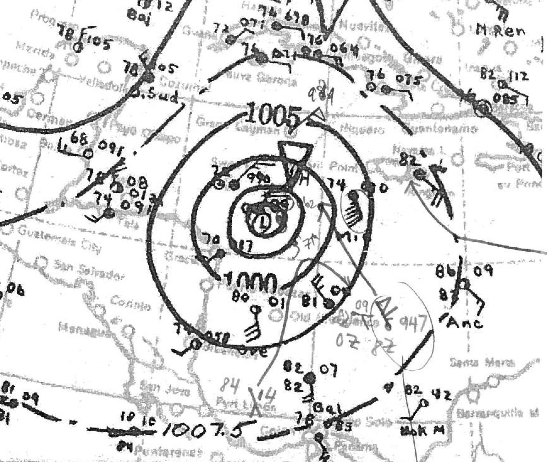 Surface analysis of Hurricane Fourteen of the 1932 Atlantic hurricane season in the Western Caribbean.